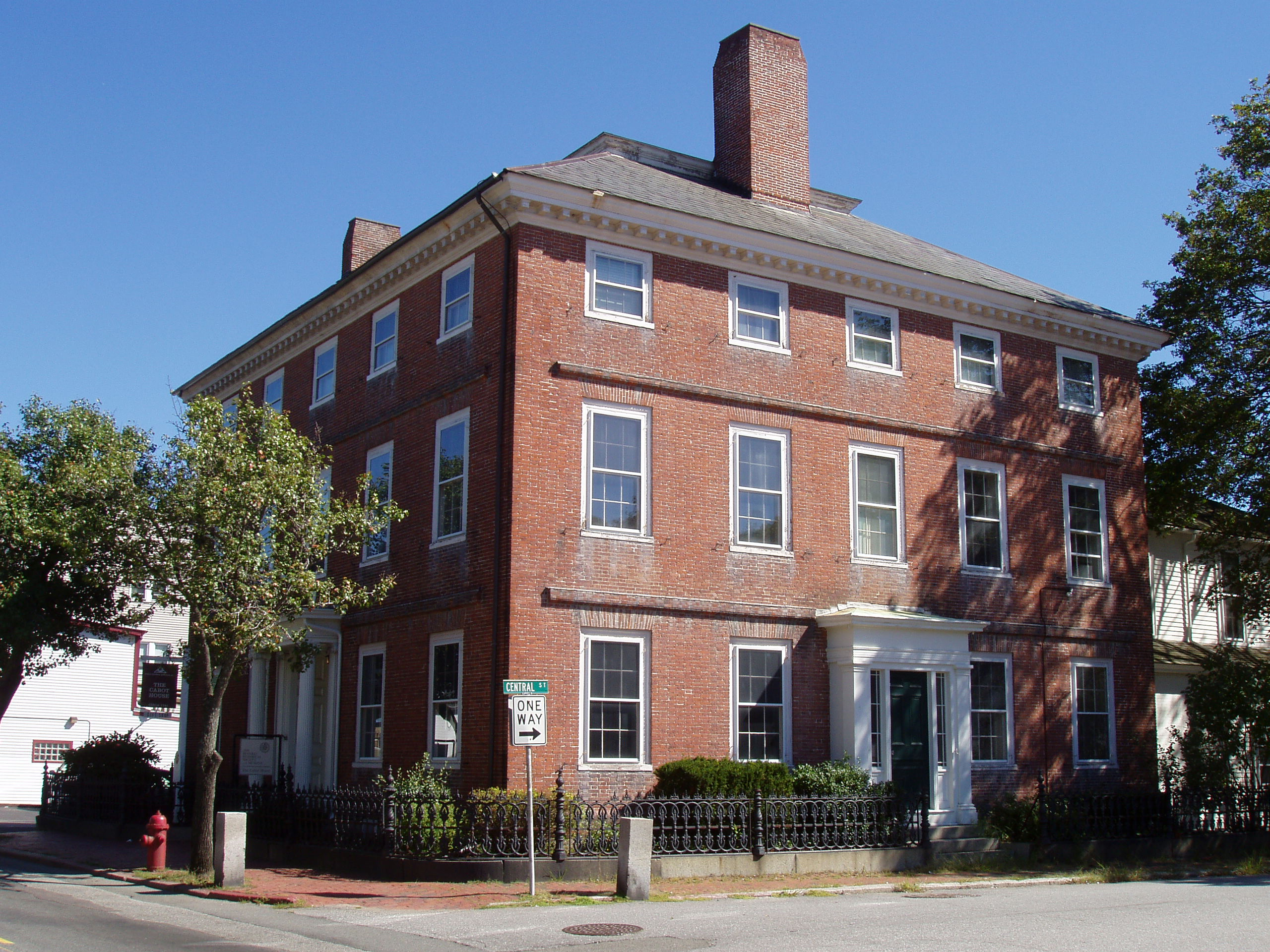 John Cabot House - Beverly, Massachusetts. Photograph taken by me, September 2005.